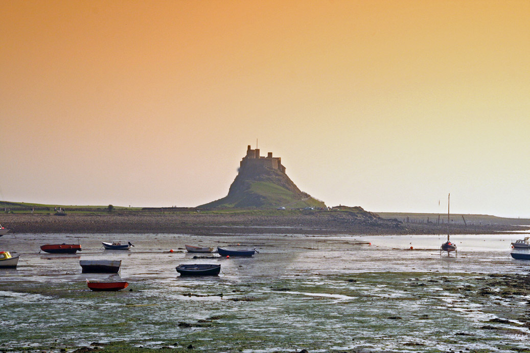 View of Lindisfarne castle at sunset and boats at low tide.